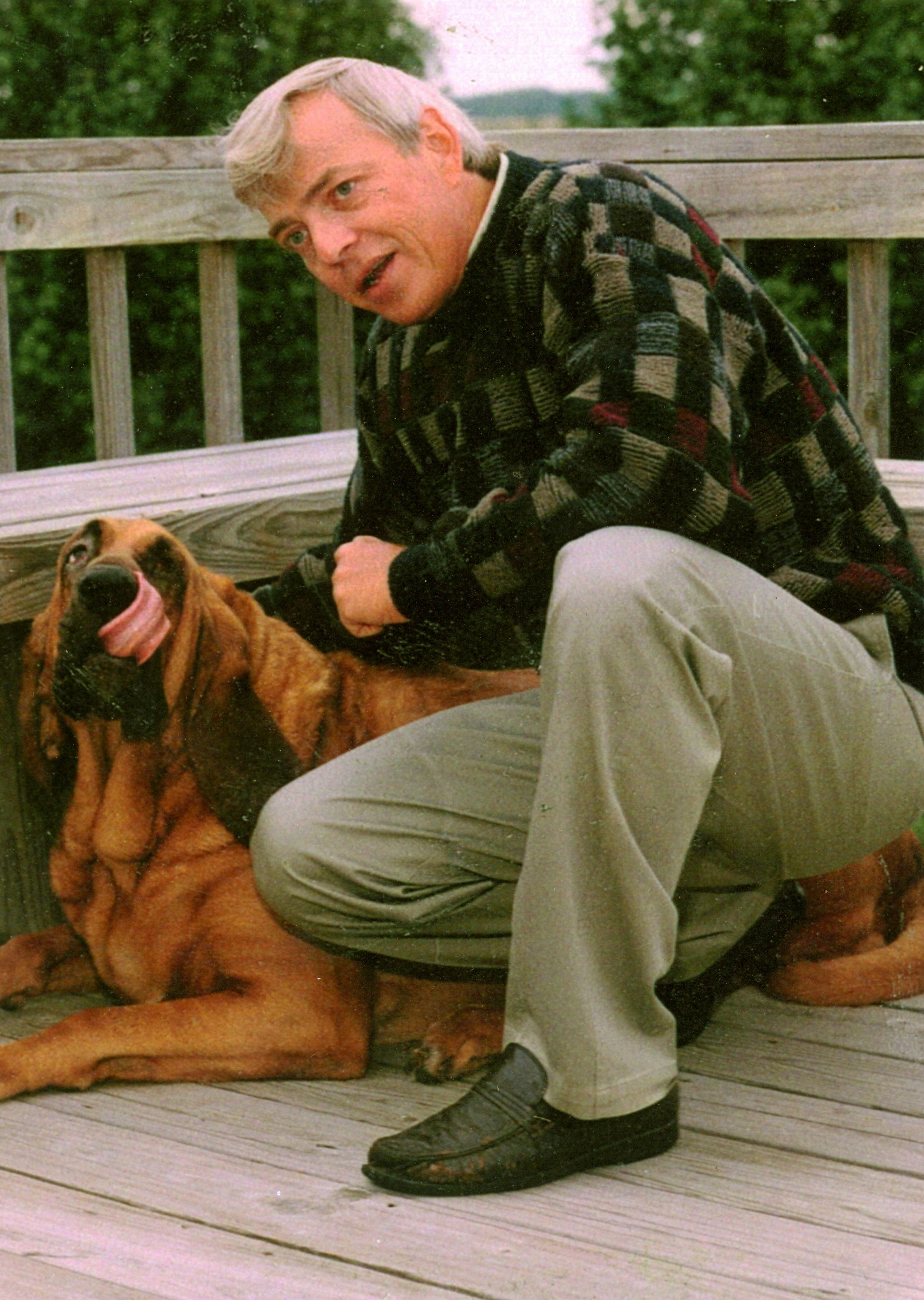 Gregg the Inventor and Buck the Bloodhound.(Photo provided by Neuticles)